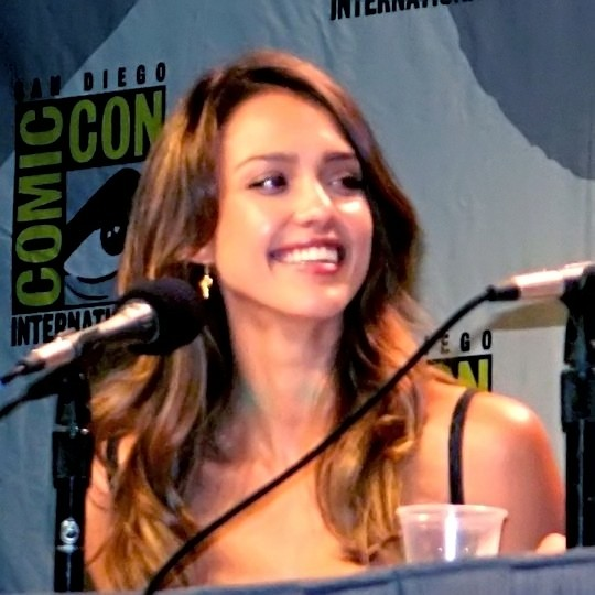 Jessica Alba attending Comic Con 2007 to promote Good Luck Chuck.